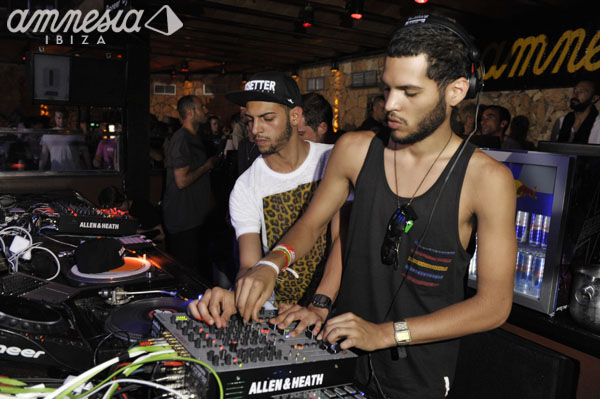 18.06.12 - Cocoon. More pics and info at